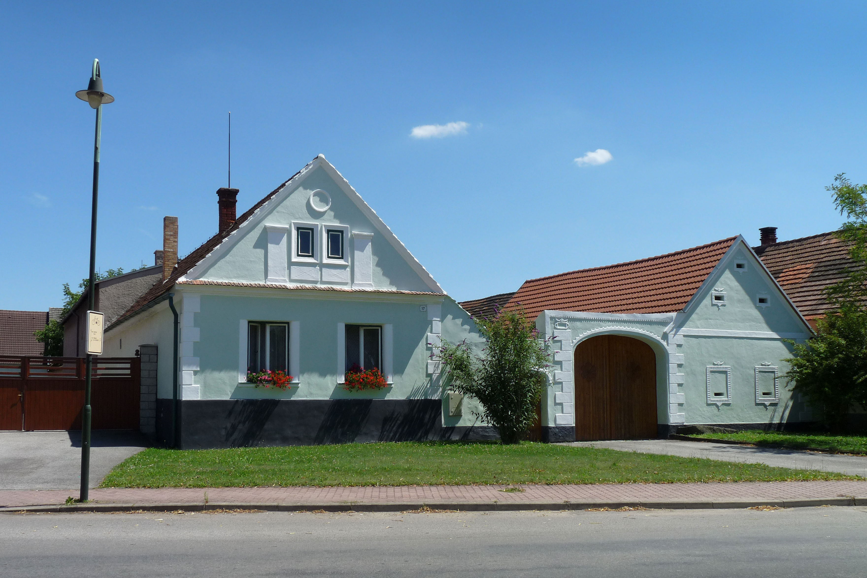 House No 17 in the village of Hrdějovice, České Budějovice District, Czech Republic.